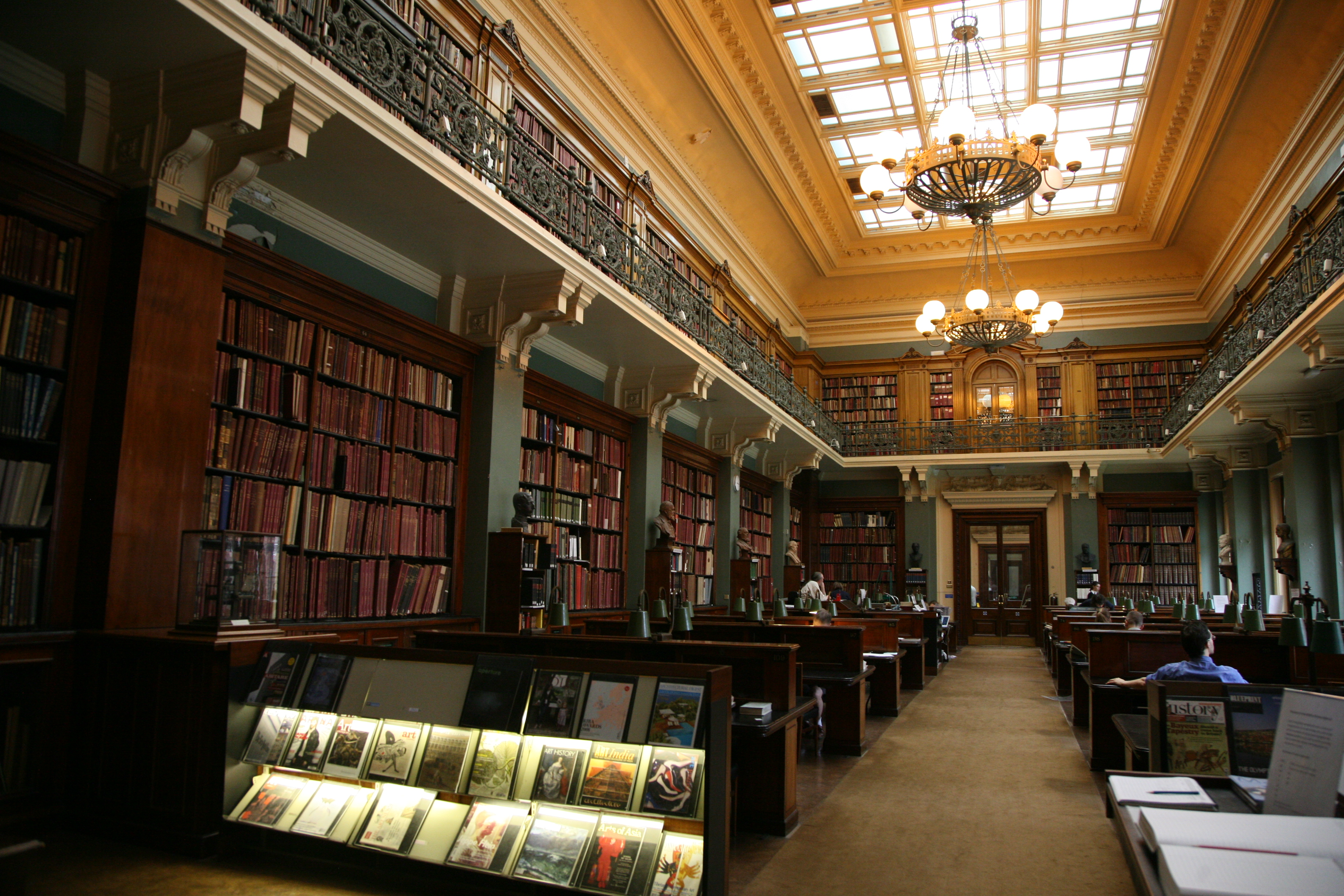 National Art Library, at Victoria and Albert Museum, London, England.